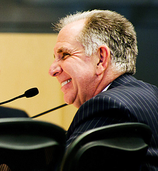 University of Washington President Michael Young recently spoke at a joint Council committee meeting. His remarks included his vision for the future of the University, the relationship he hopes to forge with city government, and ways the University can enhance its role in the economic vitality of the city. Councilmember Burgess also pictured. Photo by Karlie Roland